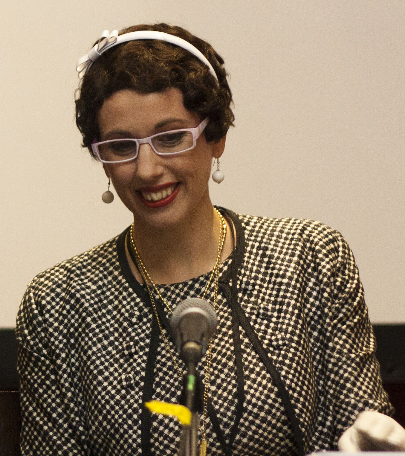 Steampunk author Gail Carriger at the Multicultural Steampunk Panel, Eastercon 2012, UK.